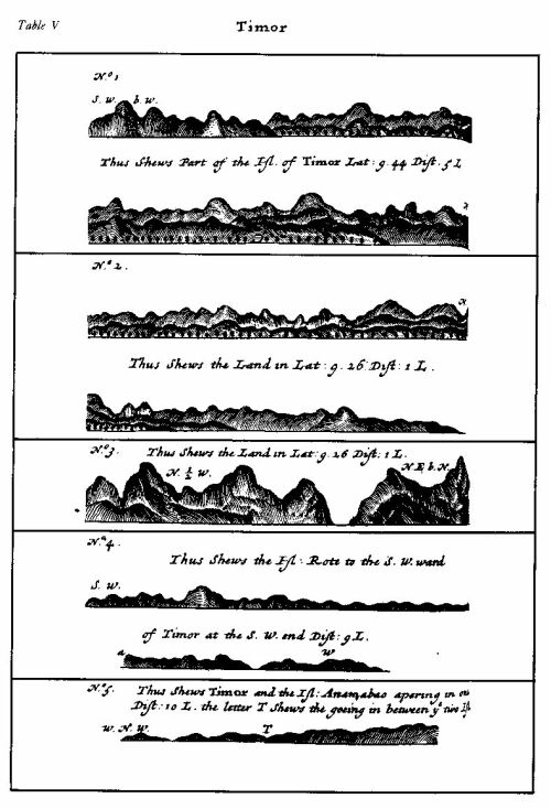 A Continuation of a Voyage to New Holland: Table 5: Timor.